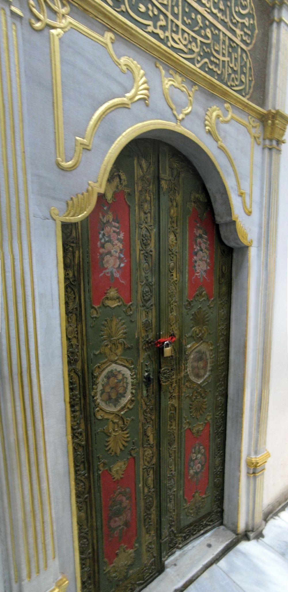 entrance door to the chamber of Sultan Abdül Hamid I.